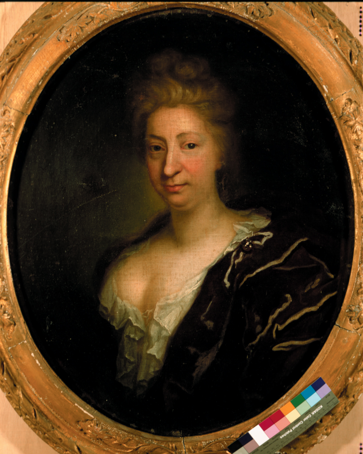 Máire Rua O'Brien of Leamaneh Castle (later of Dromoland Castle). According to "The Story of Máire Ruadh" by Mary Hanley (North Munster Antiquarian Journal, Volume 33, Issue 4, page 24, 1991) this is one of three known portraits of Máire Rua O'Brien. All by unknown artists. This portrait has reputedly been at Dromoland Castle since 1685. An image of this portrait is included in "The Early Castles at Dromoland: Some Historical Notes" by Martin Breen and Ristéard Ua Cróinín (The Other Clare, Vol 43, 2019).